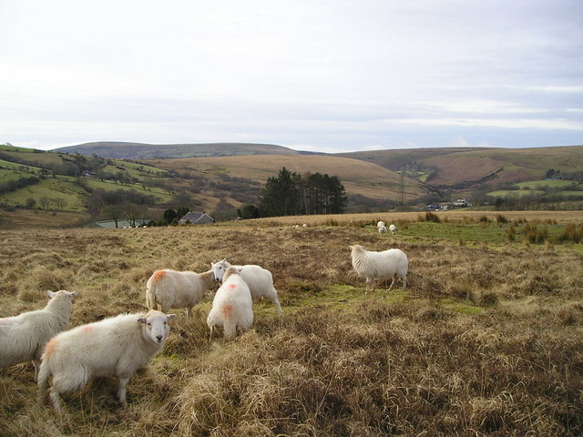 Sheep on the Uplands These Welsh mountain sheep can scrape a living even on this sparse pasture. The red markings distinguish them from sheep from other farms sharing the common grazing. The farms of Hafod and Tresgyrch Fawr can be seen beyond. There is also a tall pylon carrying the grid across the valley.